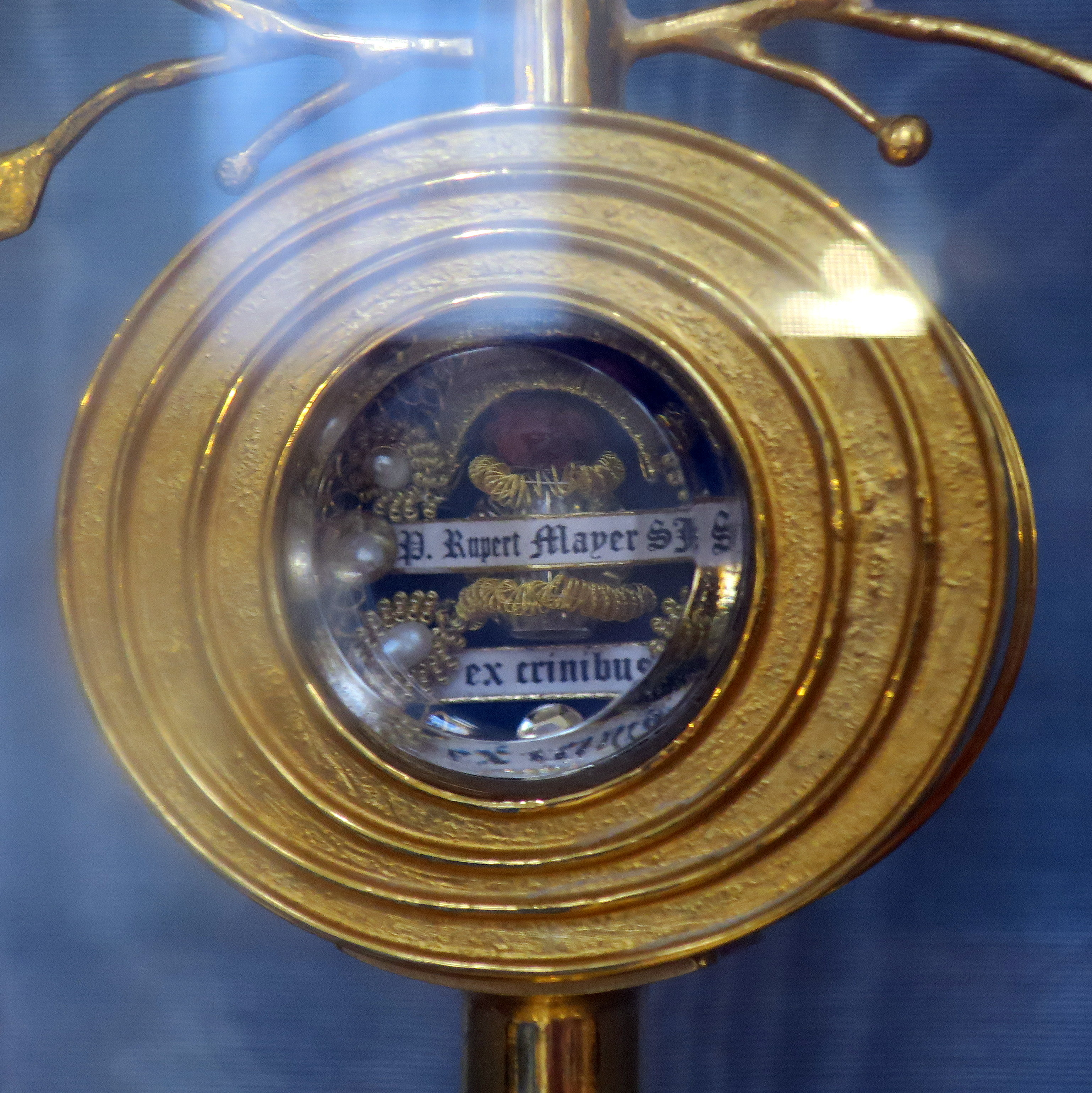 Burgersaalkirche - Relic of Ruper Mayer's hair (Munich, Bavaria)